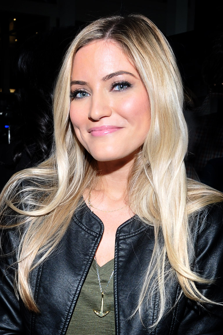 iJustine at E3 Expo on June 16, 2015 - Photo by Glenn Francis of